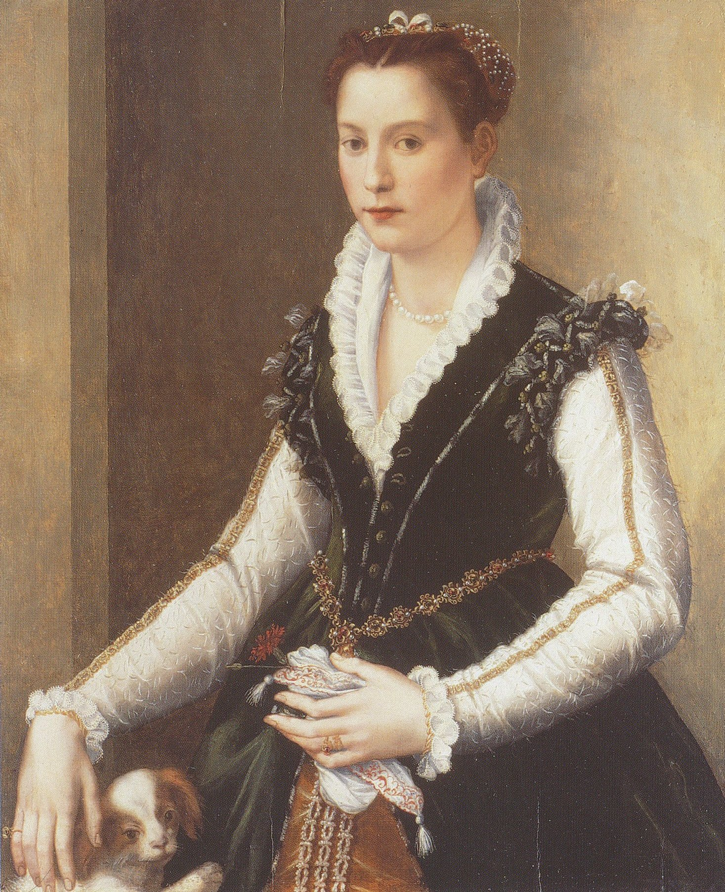 Isabella de' Medici Orsini with a Dog. Oil on panel, 88 × 71 cm. Private collection, England. Isabella de' Medici (1542–1576) was a daughter of Cosimo I de' Medici, Grand Duke of Tuscany, and Eleonora di Toledo. She married Paolo Giordano Orsini, who murdered her for adultery at the Villa of Cerreto Guidi.